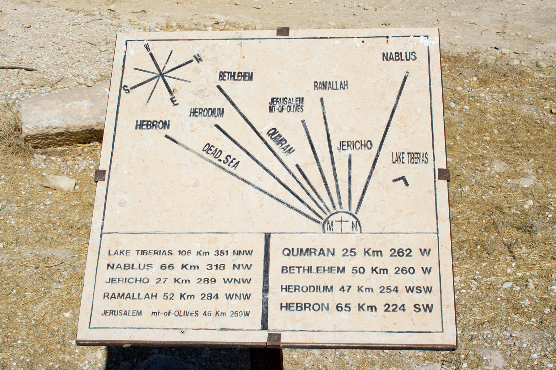 Distances to various Holy Land locations from atop Mount Nebo, Jordan.